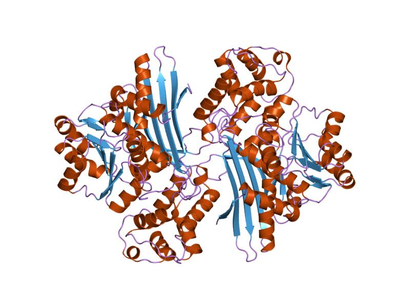 Cartoon representation of the molecular structure of protein registered with 1e5l code.